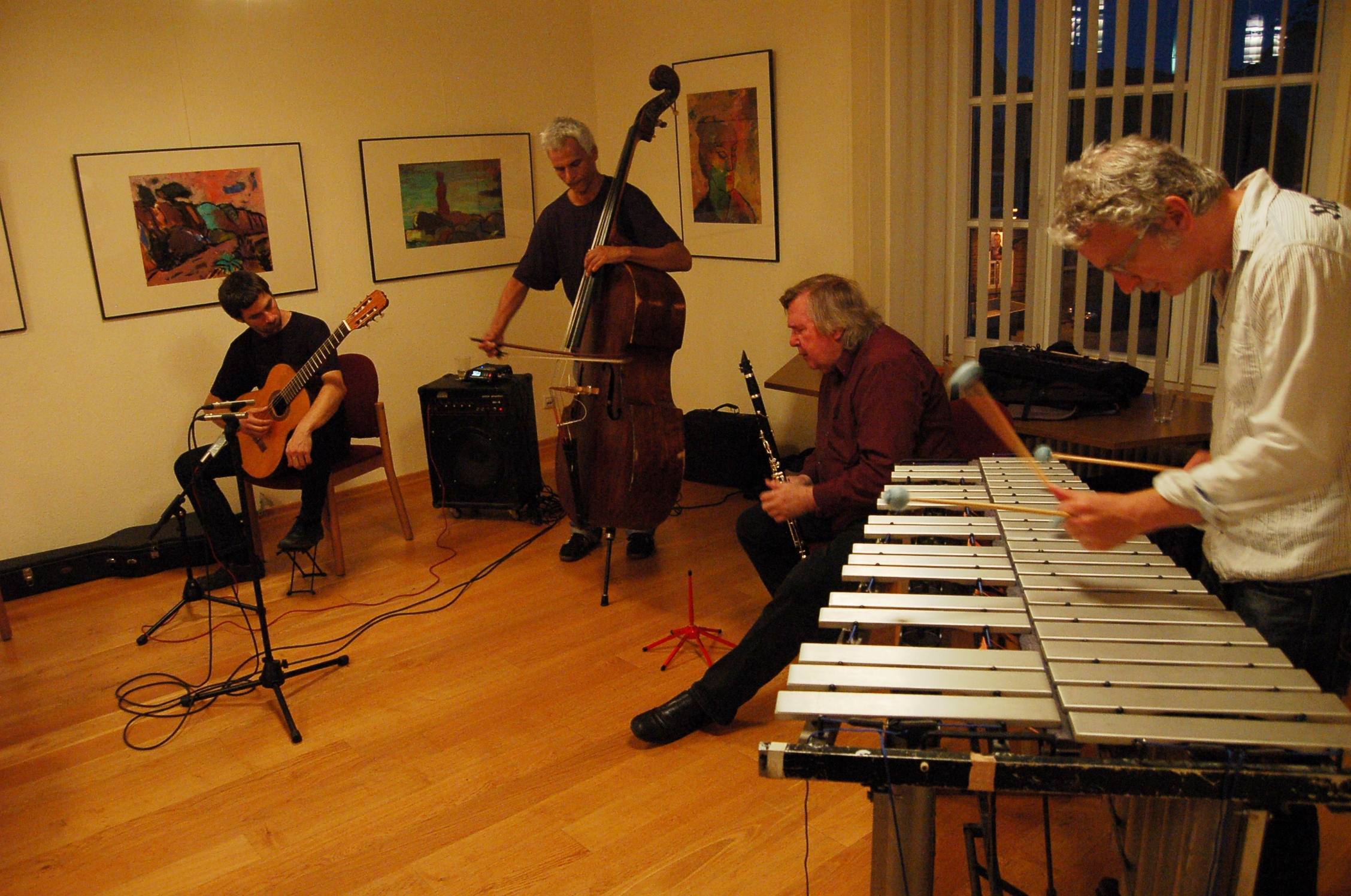 Theo Jörgensmann Freedom Trio; Hagen Stüdemann, guitar; Christian Ramond, bass; Theo Jörgensmann, low g clarinet and Christopher Dell, vibraphone; at Rathaussaal Brüel, Germany